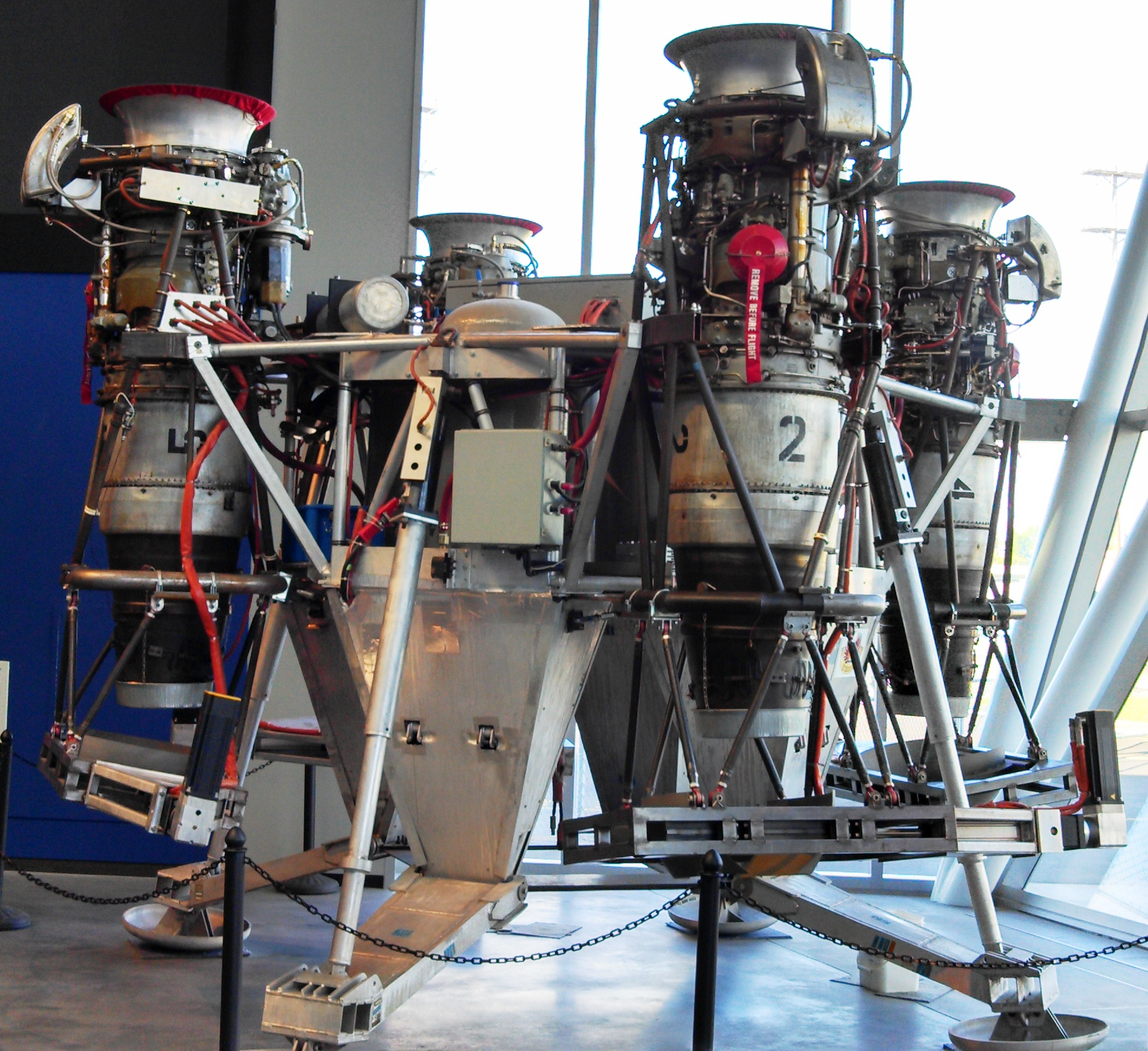 Blue Origin is a quiet space company, founded by Amazon's Jeff Bezos. I have high hopes for them, they have a development center in Kent, Washington near the former Boeing Kent Space Center. "Blue Origin's first flight test vehicle, called Charon, was powered by four vertically mounted Rolls-Royce Viper Mk. 301 jet engines rather than rockets. The low-altitude vehicle was developed to test autonomous guidance and control technologies, and the processes that the company would use to develop its later rockets. Charon made its only test flight at Moses Lake, Washington on March 5, 2005. It flew to an altitude of 316 feet (96 m) before returning for a controlled landing near the liftoff point." Seen in the Museum of Flight, Seattle, Washington USA. IMG_20140425_155246_615